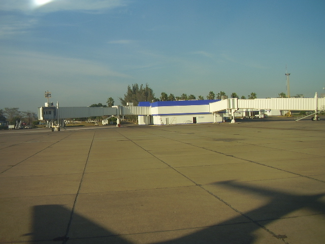 Mazatlan Intl. Arpt.